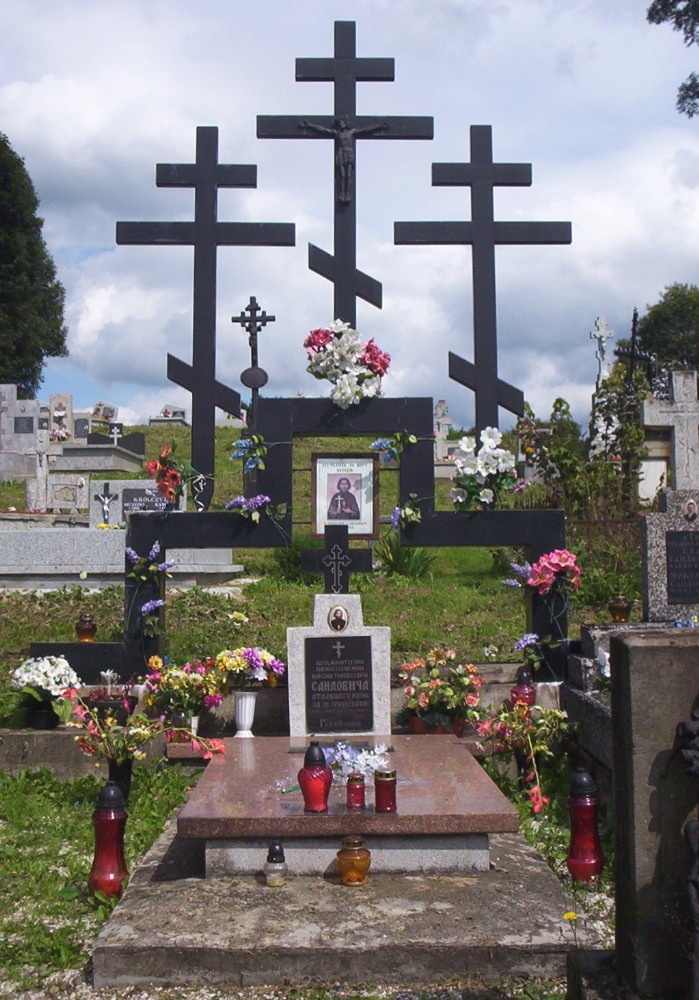 Grave of saint Maksym Sandowycz in Zdynia, Beskid Niski, Poland